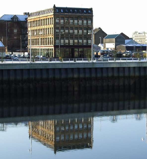 Riverside warehouse One of the few remaining warehouse buildings in the Tradeston area.